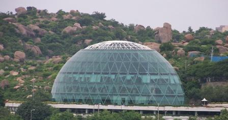 Ilabs Oval at Madhapura